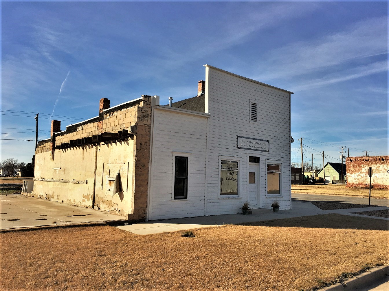 William R. Gray Photography Studio and Residence